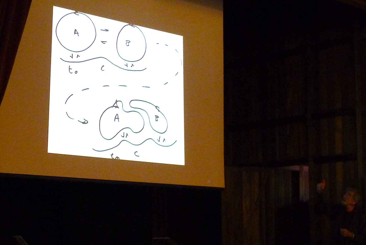 Humberto Maturana lecture ASC 2012